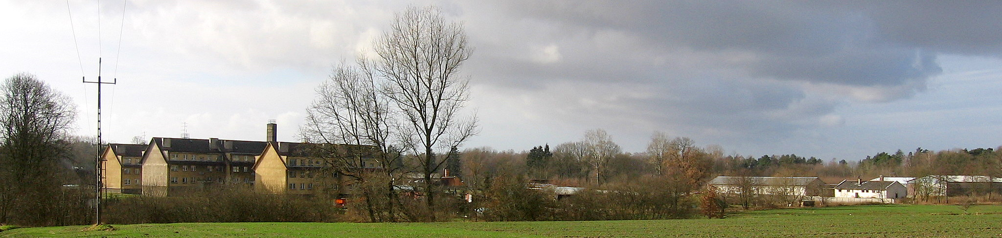 Panorama view on north part of Baszewice village, Poland